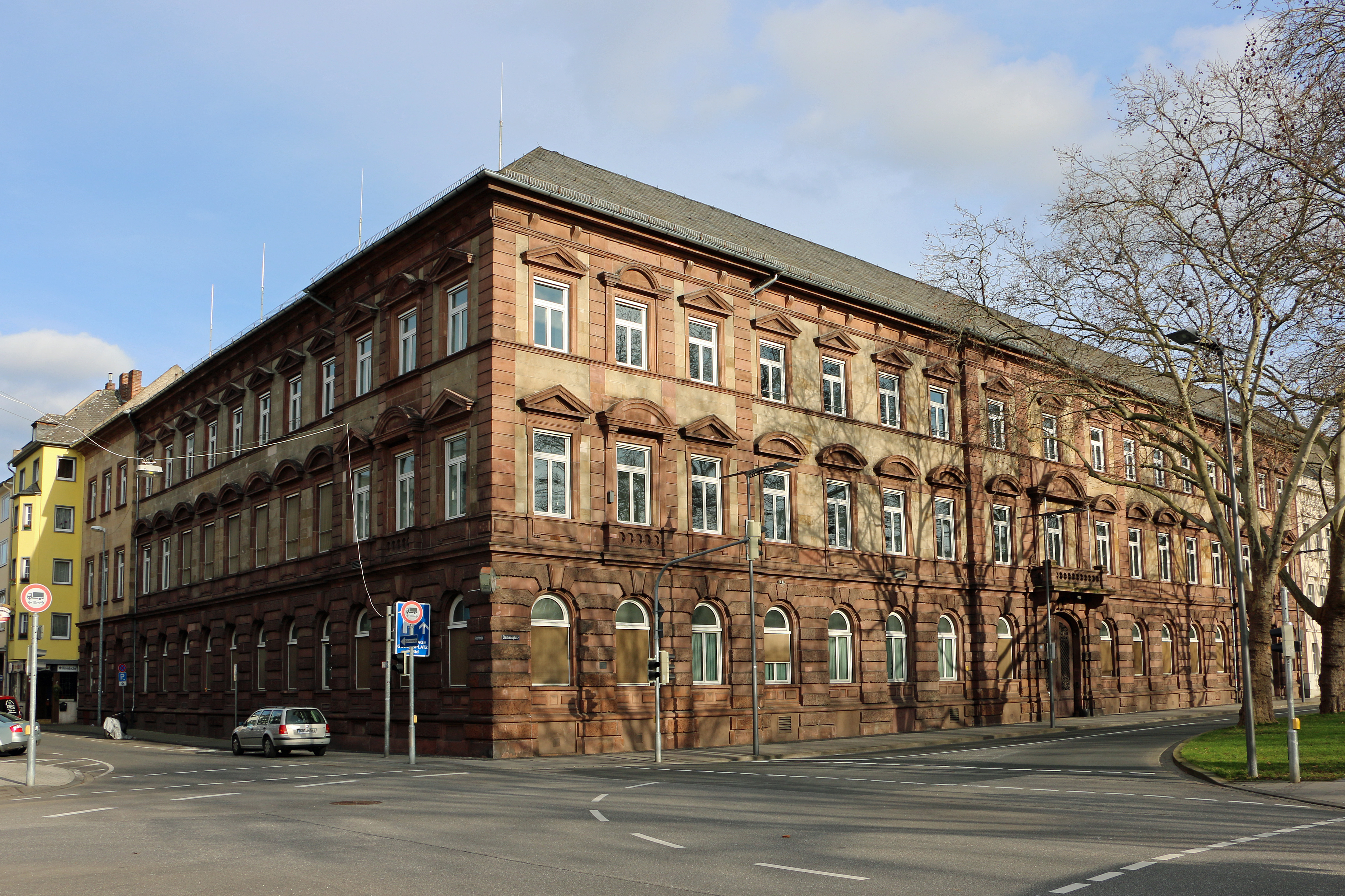 Old post office in Koblenz